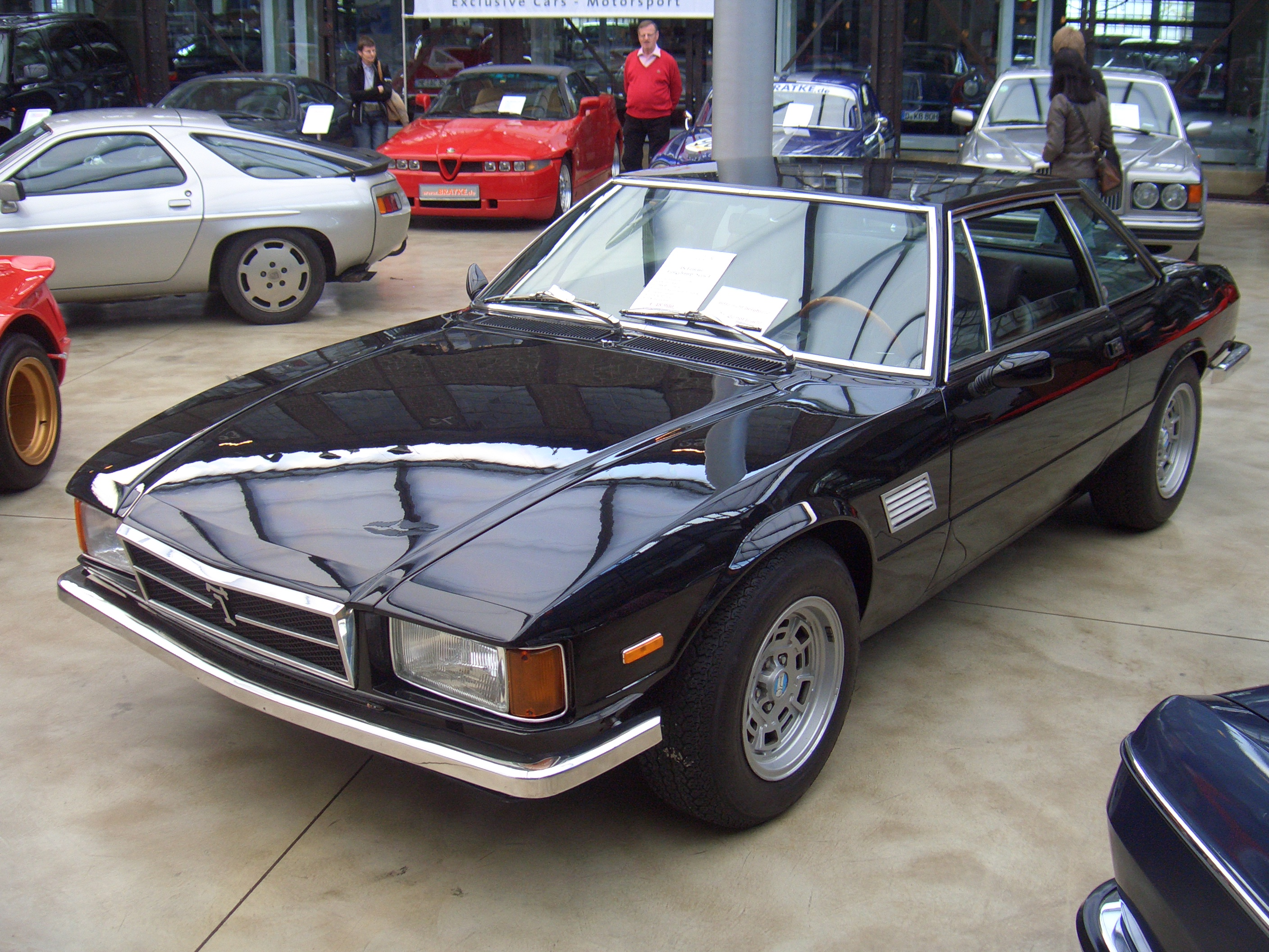 De Tomaso Longchamp. series1, 1979, seen at CLASSIC REMISE, Düsseldorf, Germany